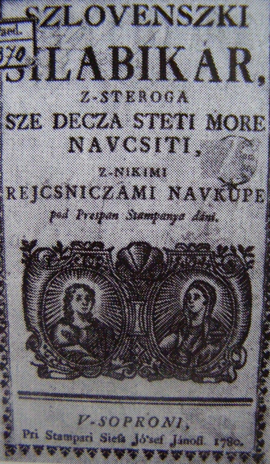 Szlovenszki silabikar (Slovene ABC book), by Miklós Küzmics